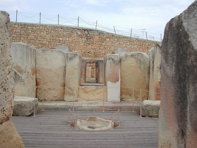 Picture: the neolithic temple in Tarxien, Malta (October 2003) Author: bulbul Not much, but it will do. Feel free to use it as you wish.